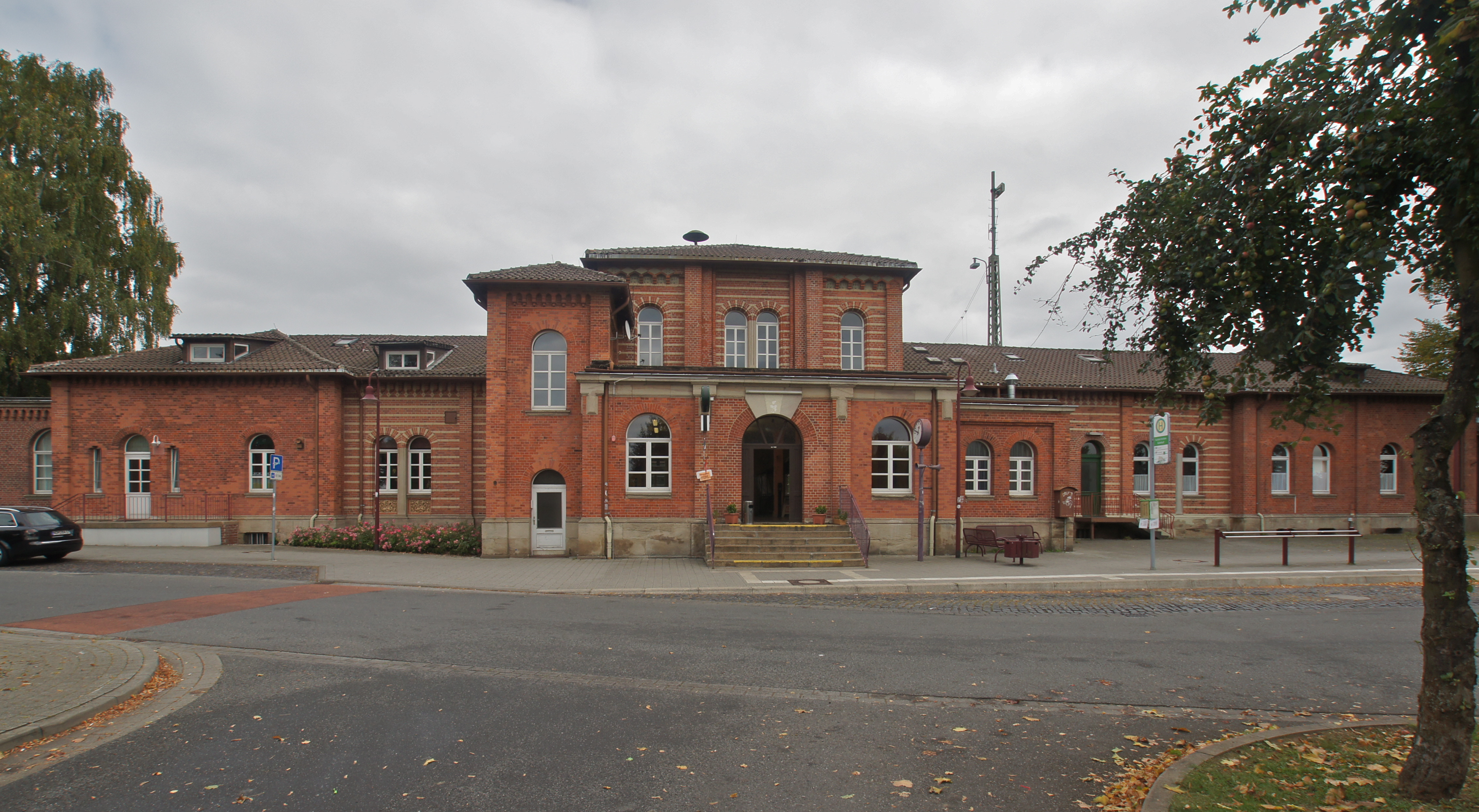 Einbeck (Salzderhelden), Germany: Railway station